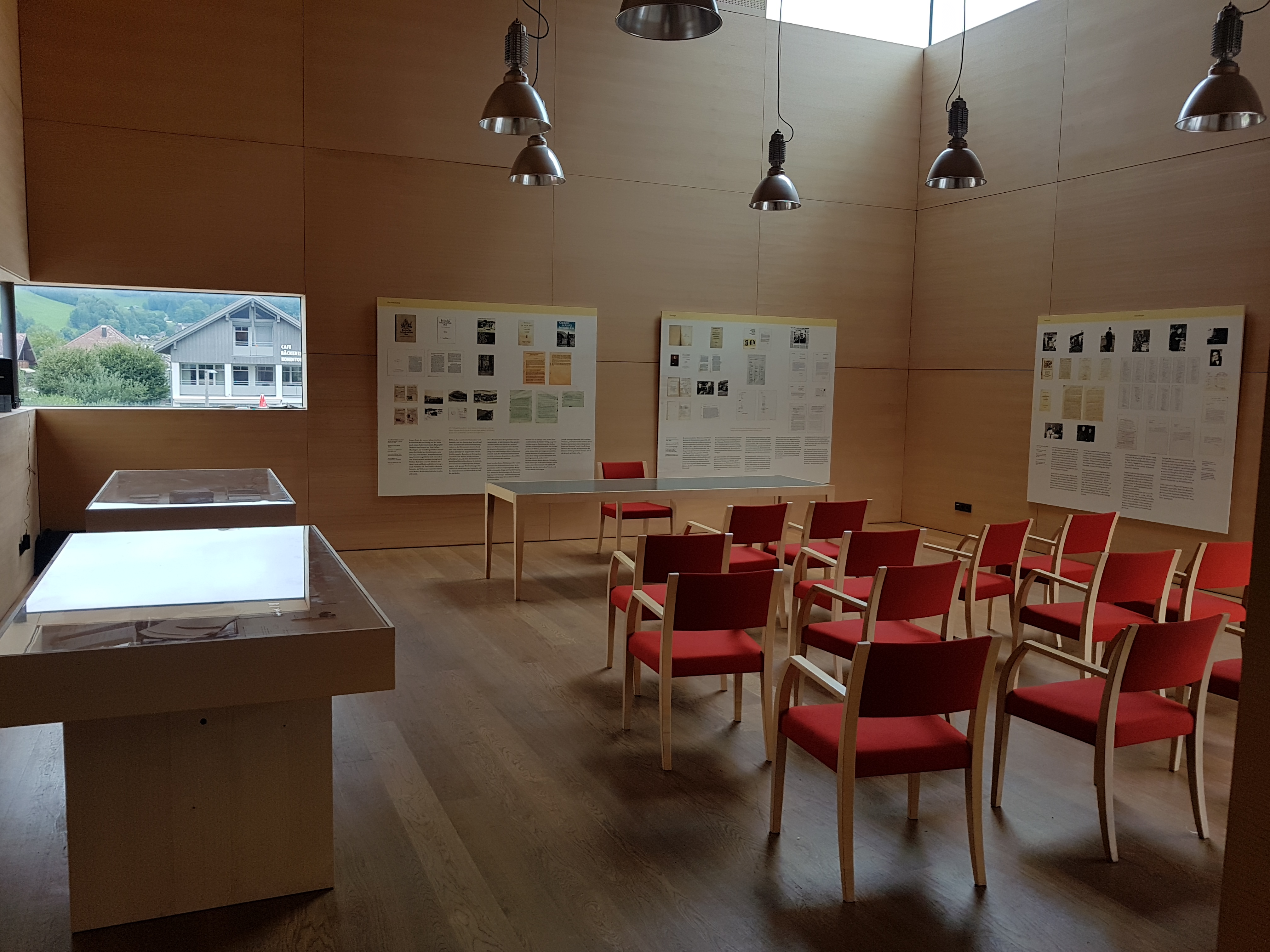 Franz Michel Willam (1894 - 1981), priest, theologian and author in Andelsbuch, Vorarlberg, Austria.